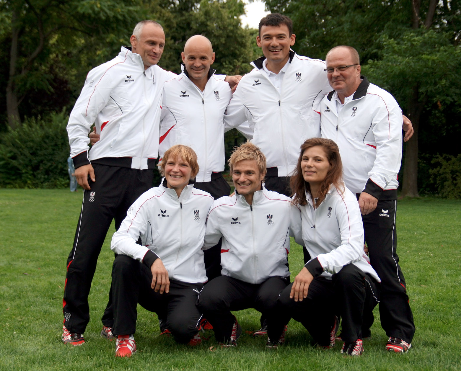 Front: Judokas Sabrina Filzmoser, Ludwig Paischer, Hilde Drexler; standing: coaches Udo Quellmalz, Othmar Haag, Taro Netzer and Klaus-Peter Stollberg after the hand-out of the Austrian teams official attire for the 2012 Summer Olympics in London (Stadtpark, Vienna).